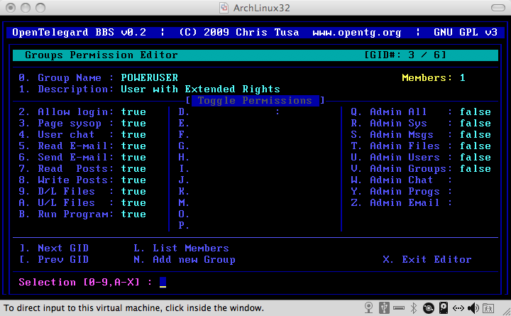 Screenshot of OpenTG's Group Permissions Editor